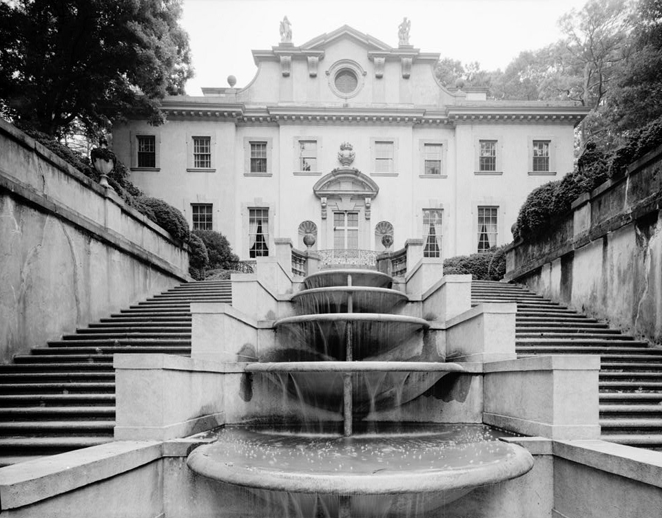 Swan House, Atlanta, Georgia, from the Historic American Buildings Survey